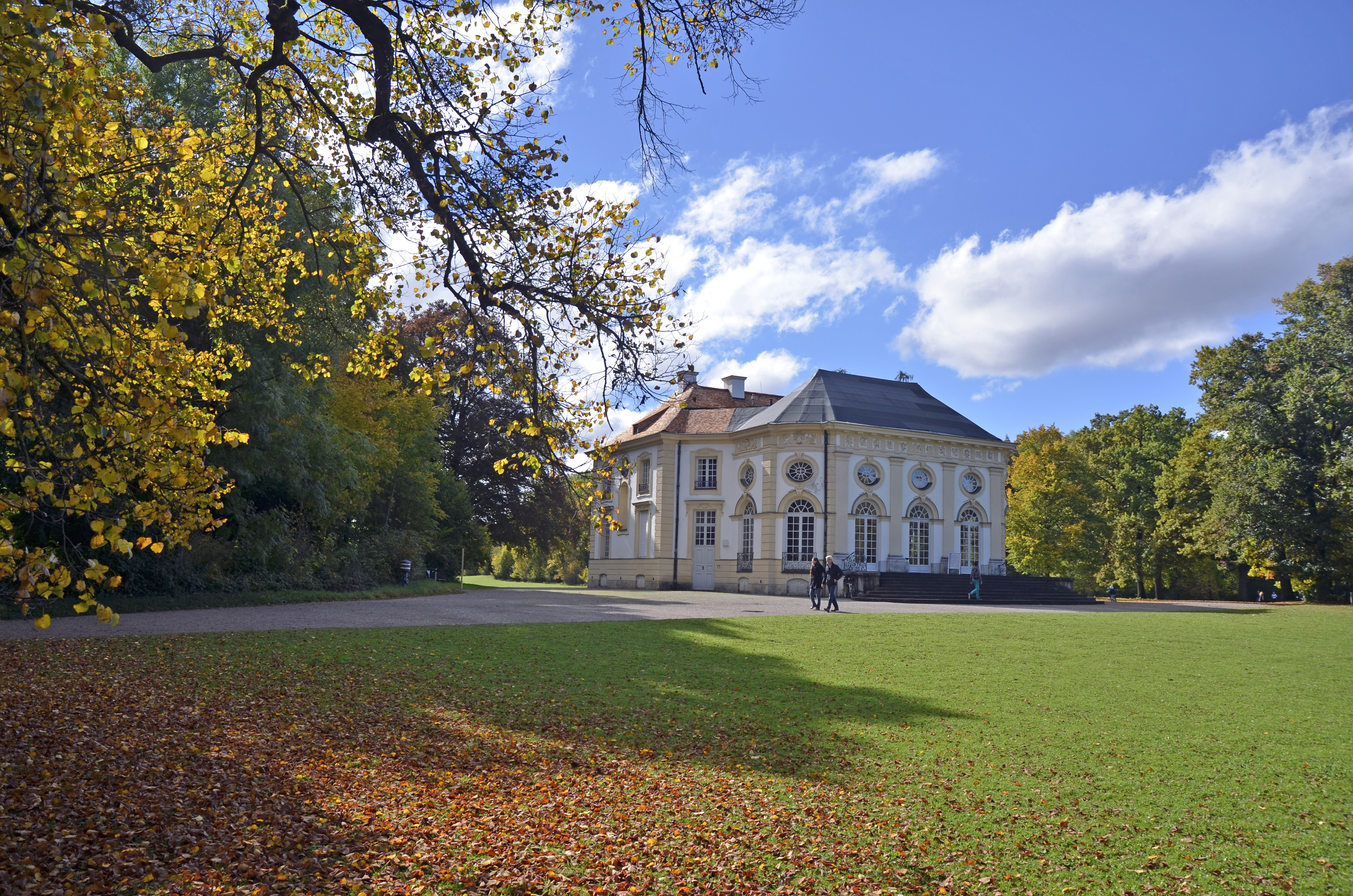 Badenburg (Nymphenburg Parc)